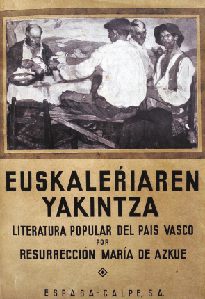 Euskalerriaren yakintza cover